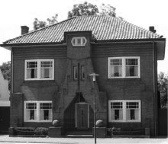 Park 11 te Nuenen